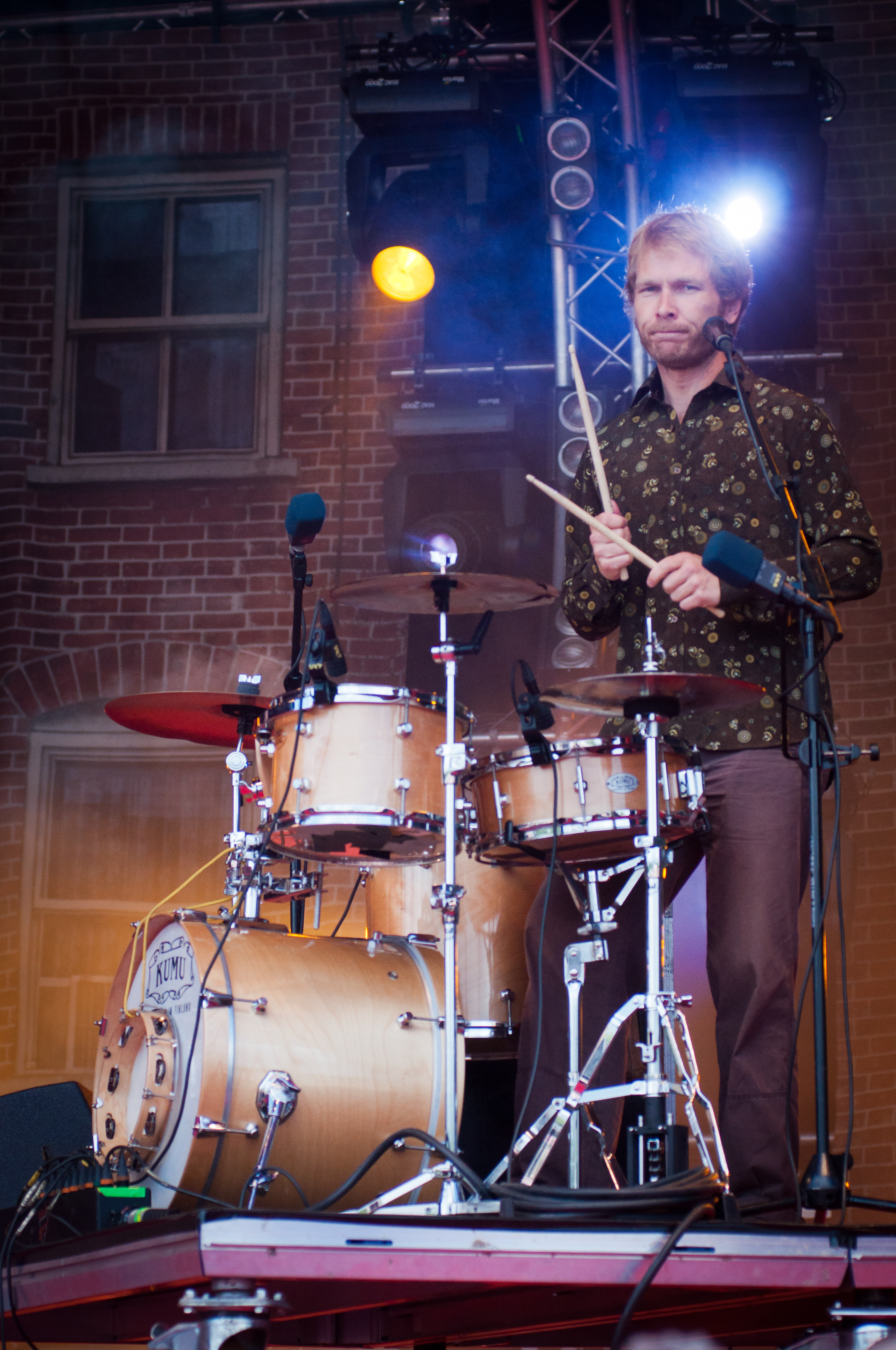 Finnish drummer Sami Kuoppamäki performing with Samuli Putro at the 2011 Ilosaarirock festival in Joensuu, Finland.